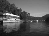 Berowra Waters Inn